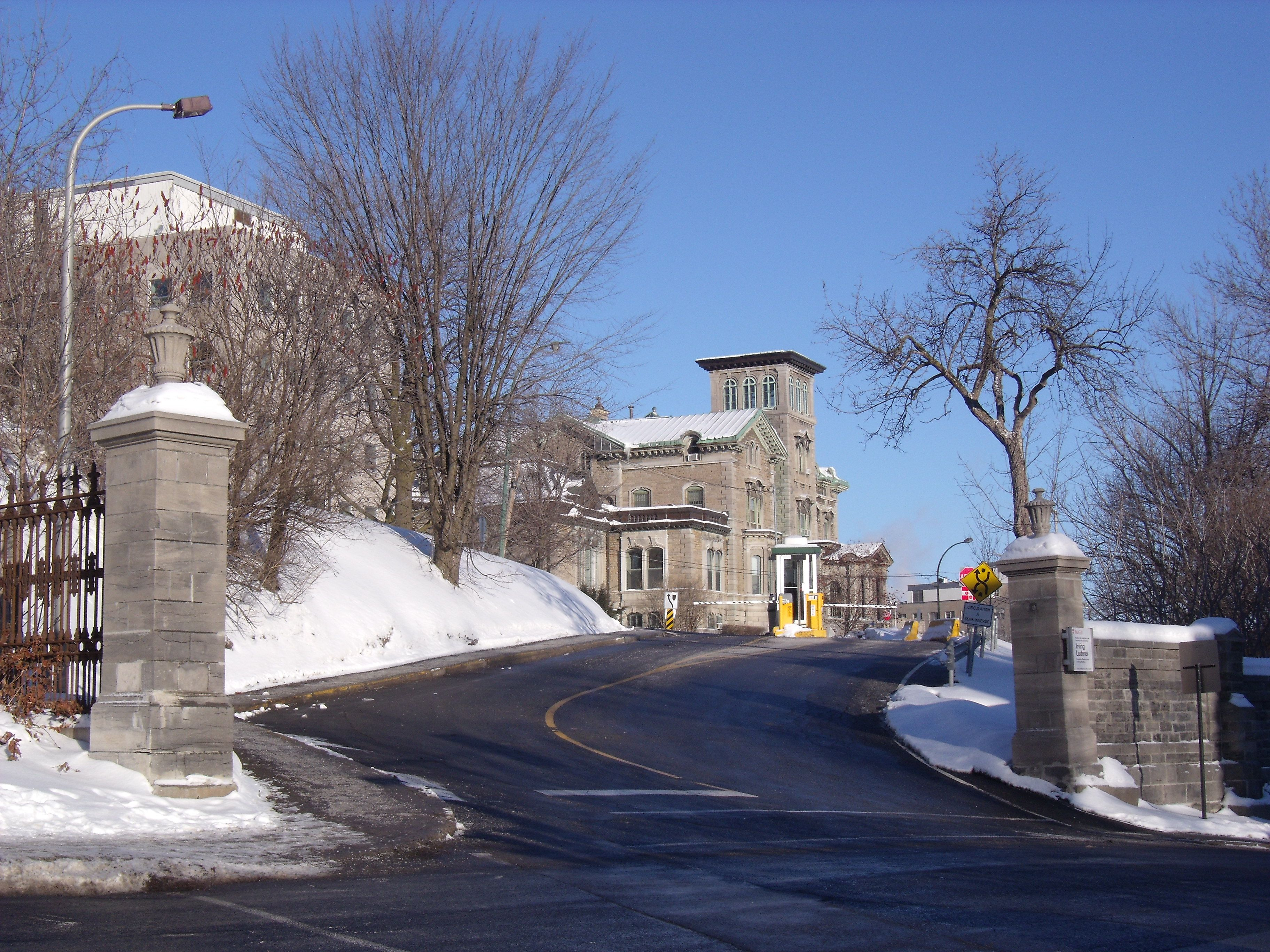 Hugh Allan House "Ravenscrag" (1863), 835-1025 Pine Avenue West, Montreal, Quebec, Canada.